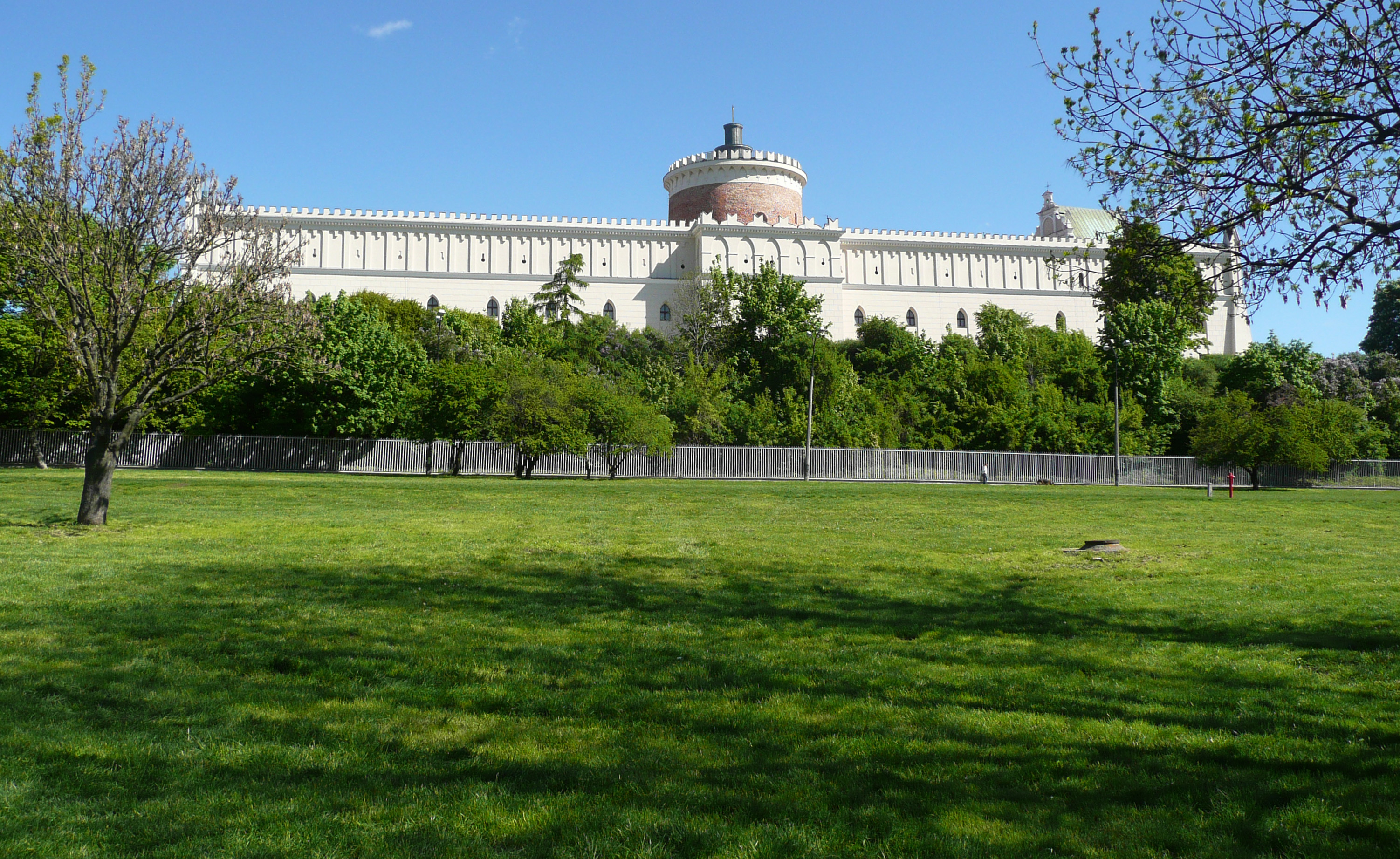 the Russian-built fortress in Lublin